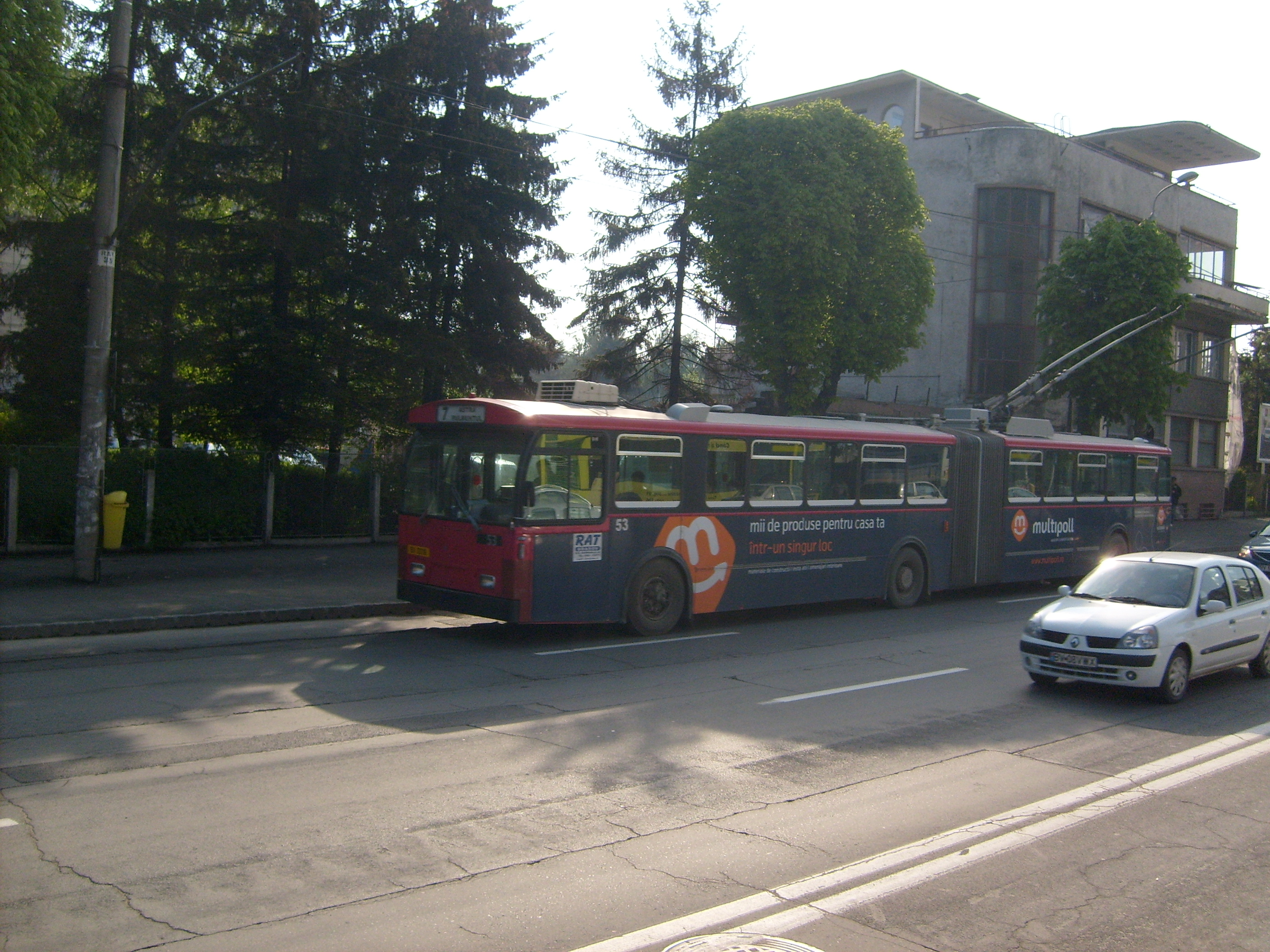 Trolleybus in Brasov (Romania).